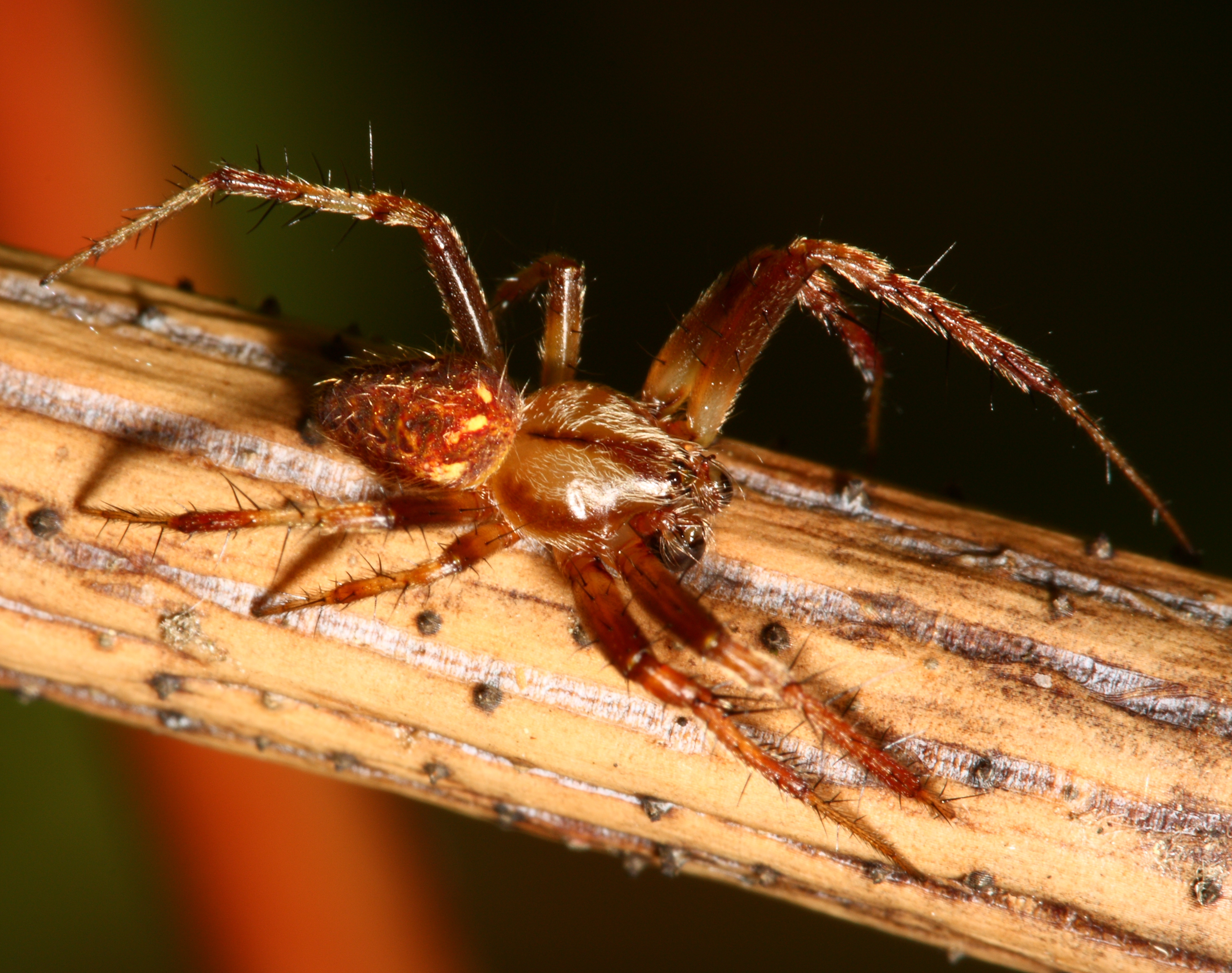 Neoscona arabesca orb-weaver spider male. Photographed at Beaver Meadow Recreation Area, Allegheny National Forest near Marienville, Pennsylvania.